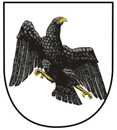 Coat of Arms of the German freestate of Prussia 1920 to 1933